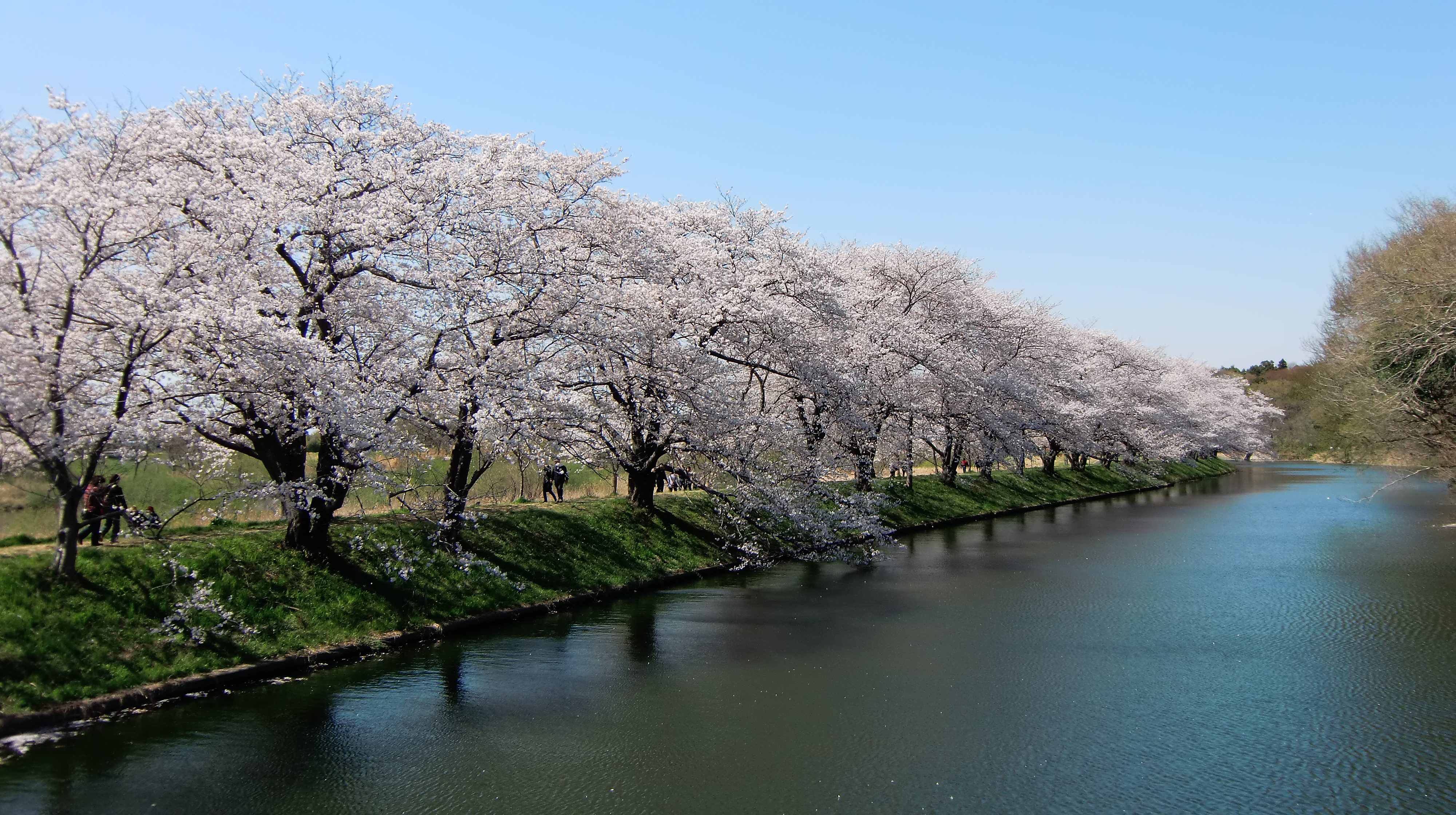 Cherry blossom in Fukuokazeki Sakura Park, Tsukubamirai City, Ibaraki Prefecture, Japan